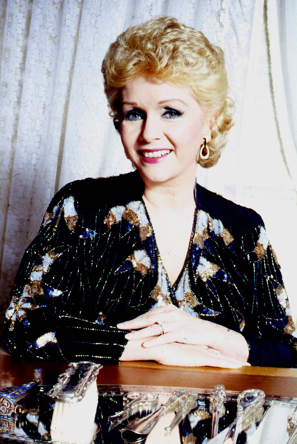 Debbie Reynolds in her bedroom Los Angeles California